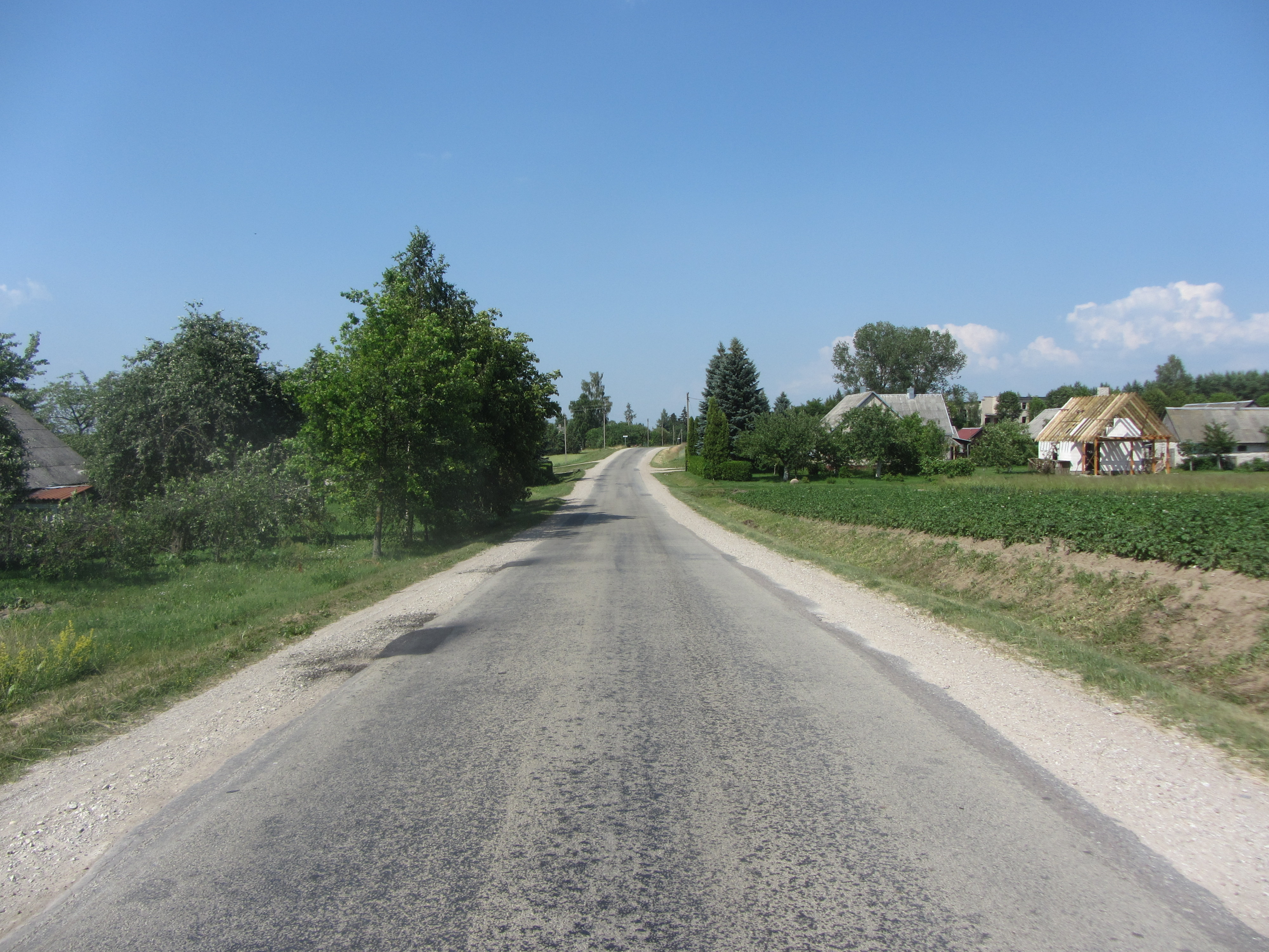 Spernia, Lithuania